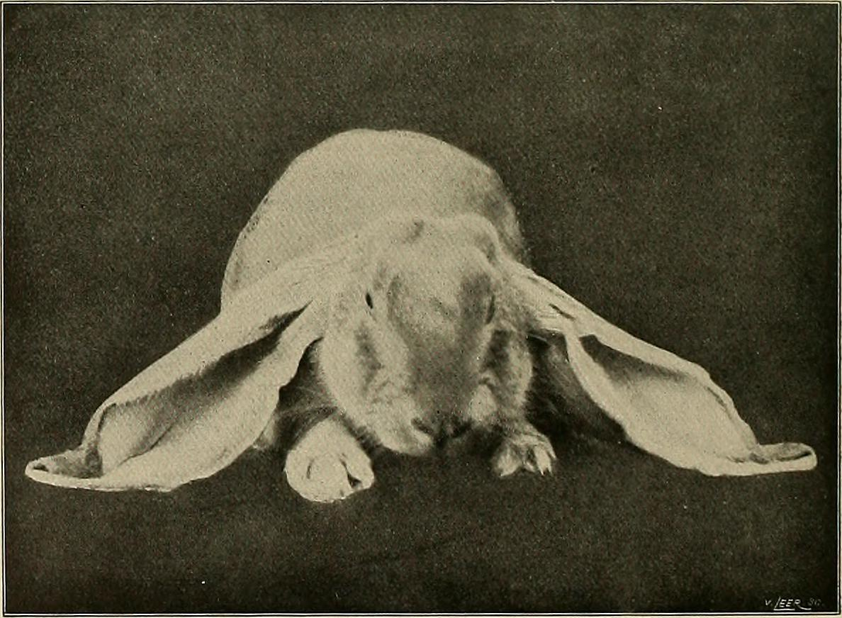 Rabbit - French Lop breed - adult - lop ears - 1907 photo published in Boston MA USA